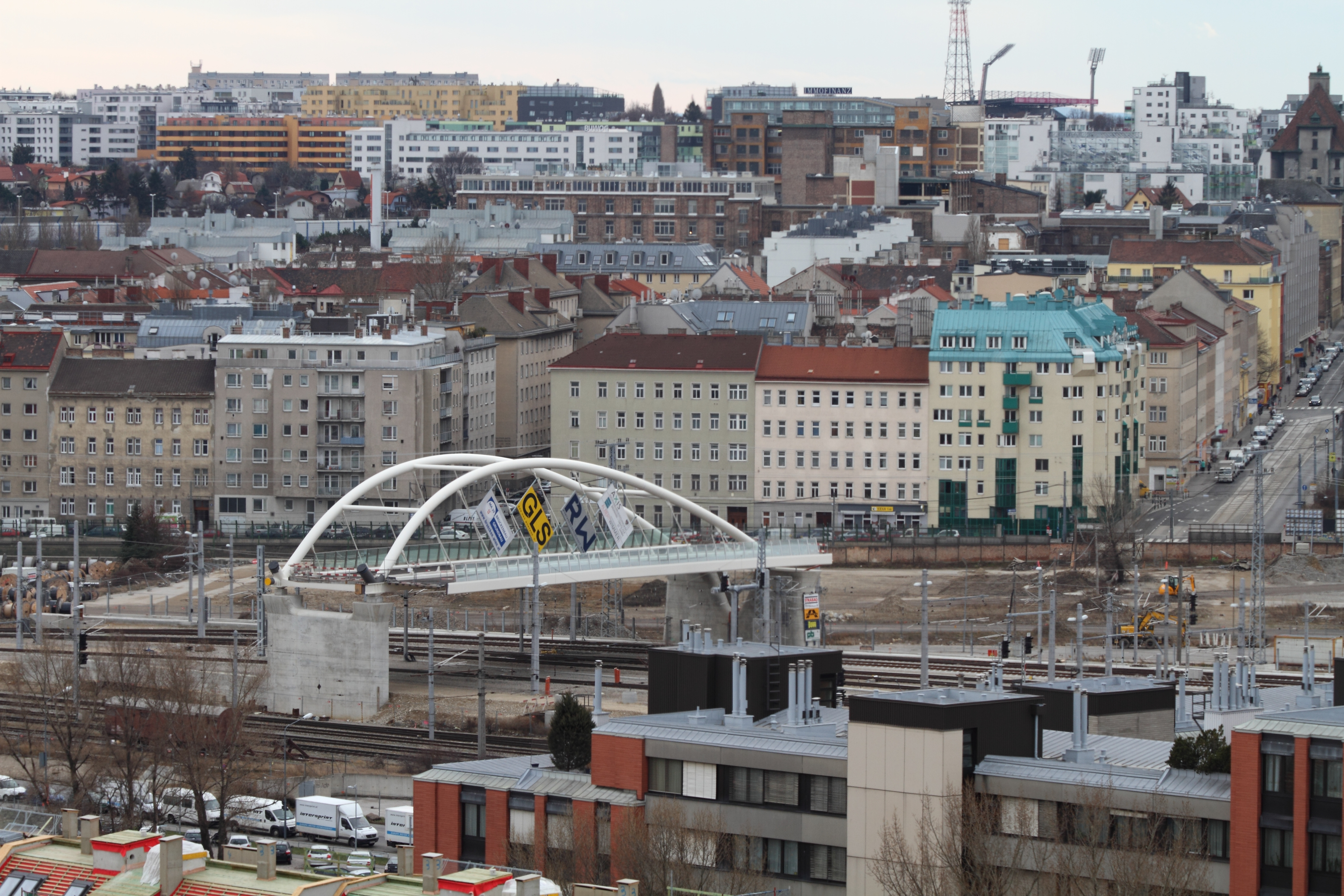 Building area of Wien Hauptbahnhof on former Ostbahnhof ground with the Südbahnhofbrücke.